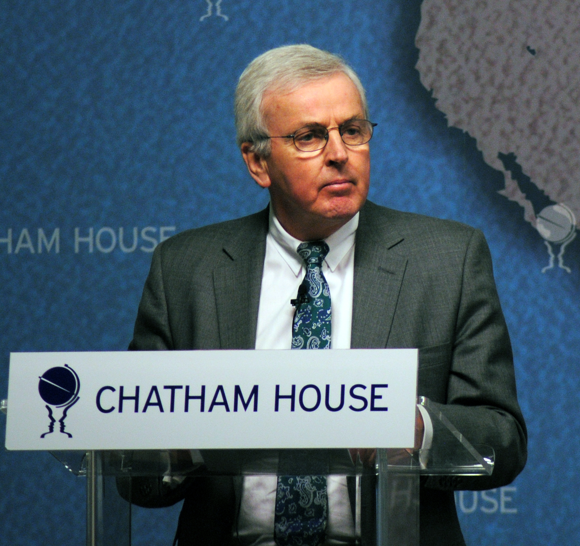 Sir John Holmes, Director, The Ditchley Foundation; UN Emergency Relief Coordinator (2007-10) at the Chatham House event The Politics of Aid, 14 March 2013